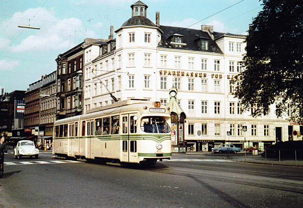 Tramway passing the telephone kiosk at Dronning Louises Bro/Nørrebrogade in Copenhagen, Denmark